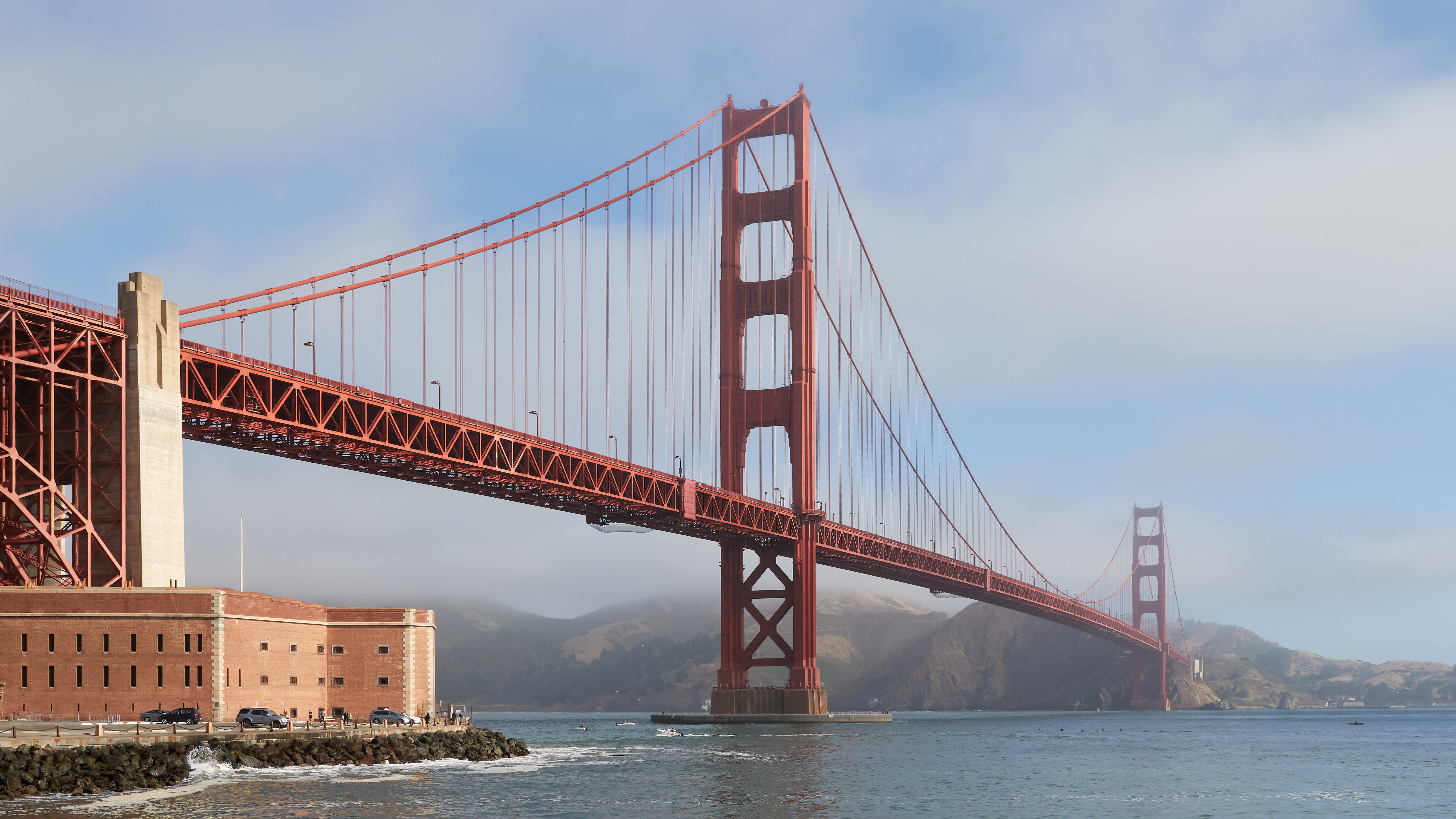 The Golden Gate Bridge in San Francisco on an early morning in June 2017 as seen from the Fort Point side. The sun slowly dissolves the fog that’s covering the Marin Headlands and parts of the bridge.